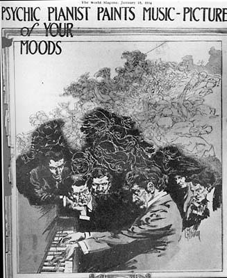 Cover of "The World" magazine of Jan. 18, 1914 (for the dating see this L.A.Times Article); featuring Francis Grierson as "Psychic Pianist"